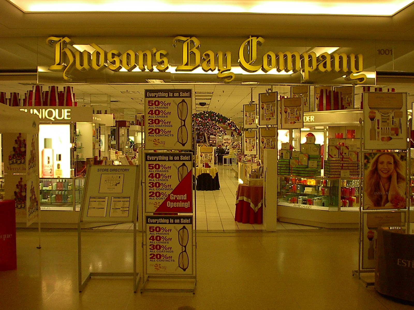 Author: Matteso Snapped the photo myself while at the mall